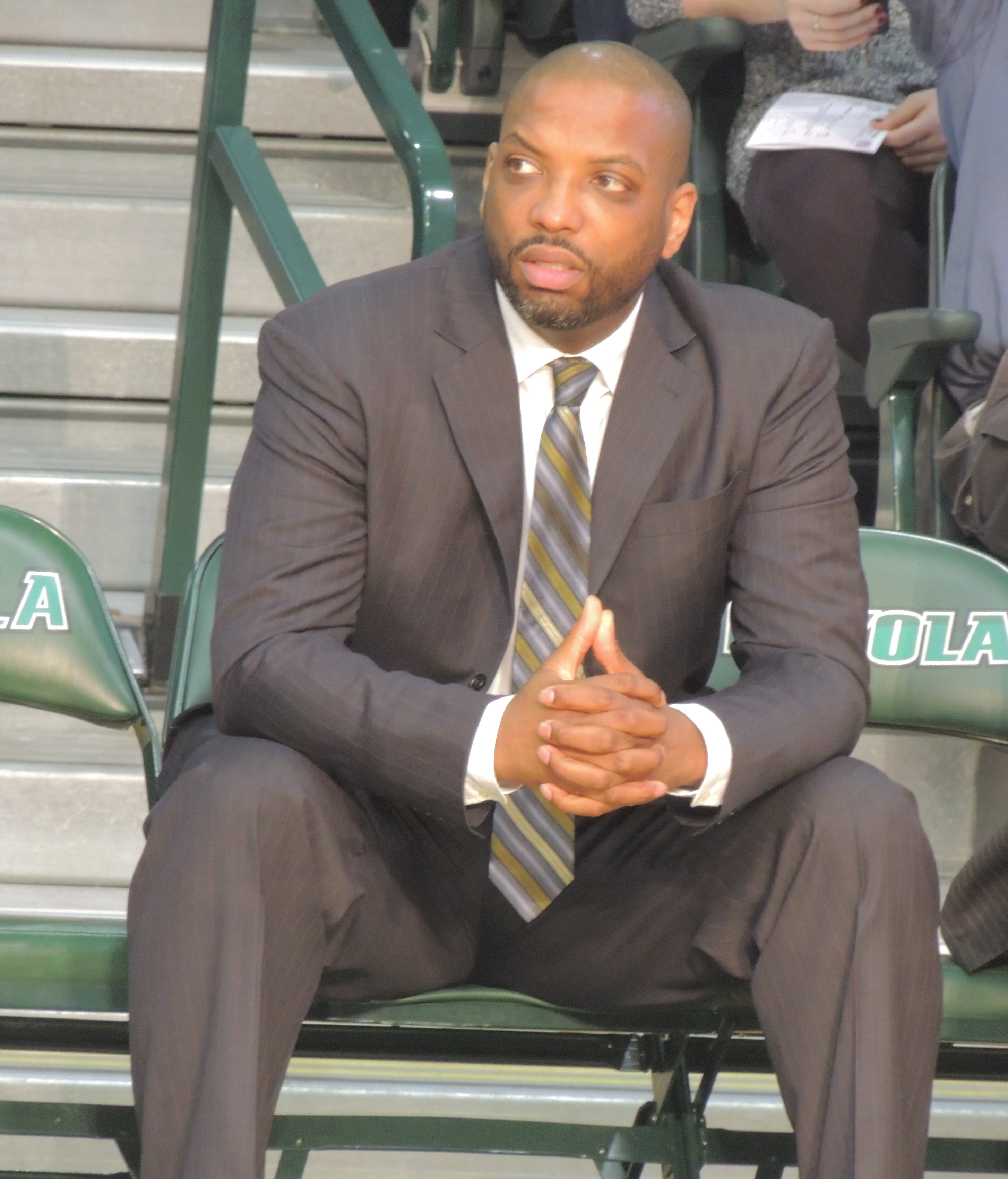 Loyola assistant basketball coach Keith Booth in a February, 2017 game